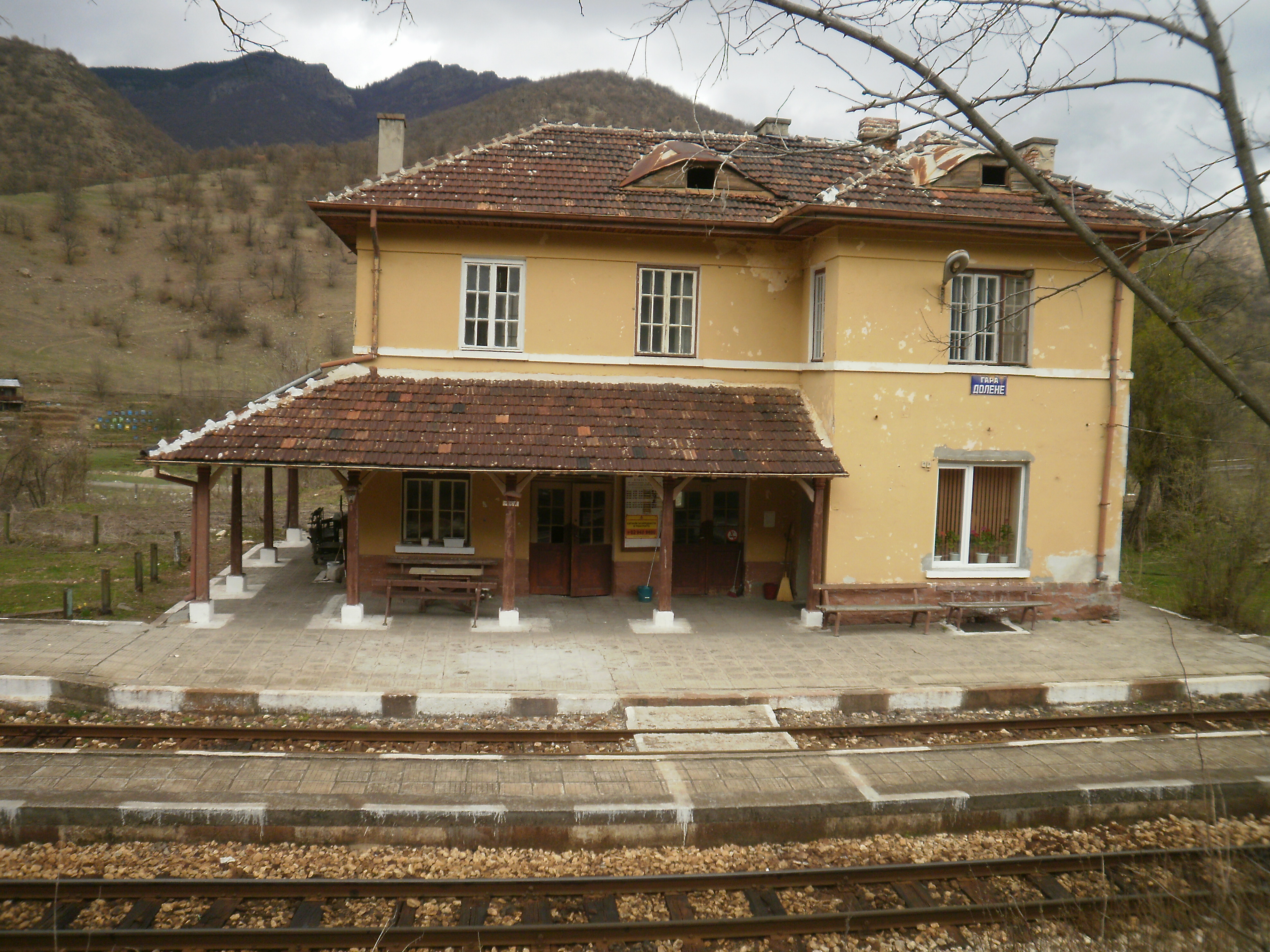 Dolene railway station, Septemvri-Dobrinishte narrow gauge line.